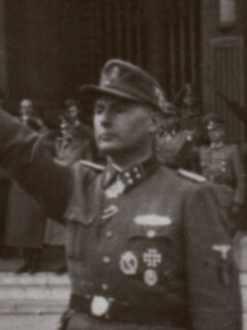 Léon Degrelle in Charleroi, Belgium on April 1, 1944